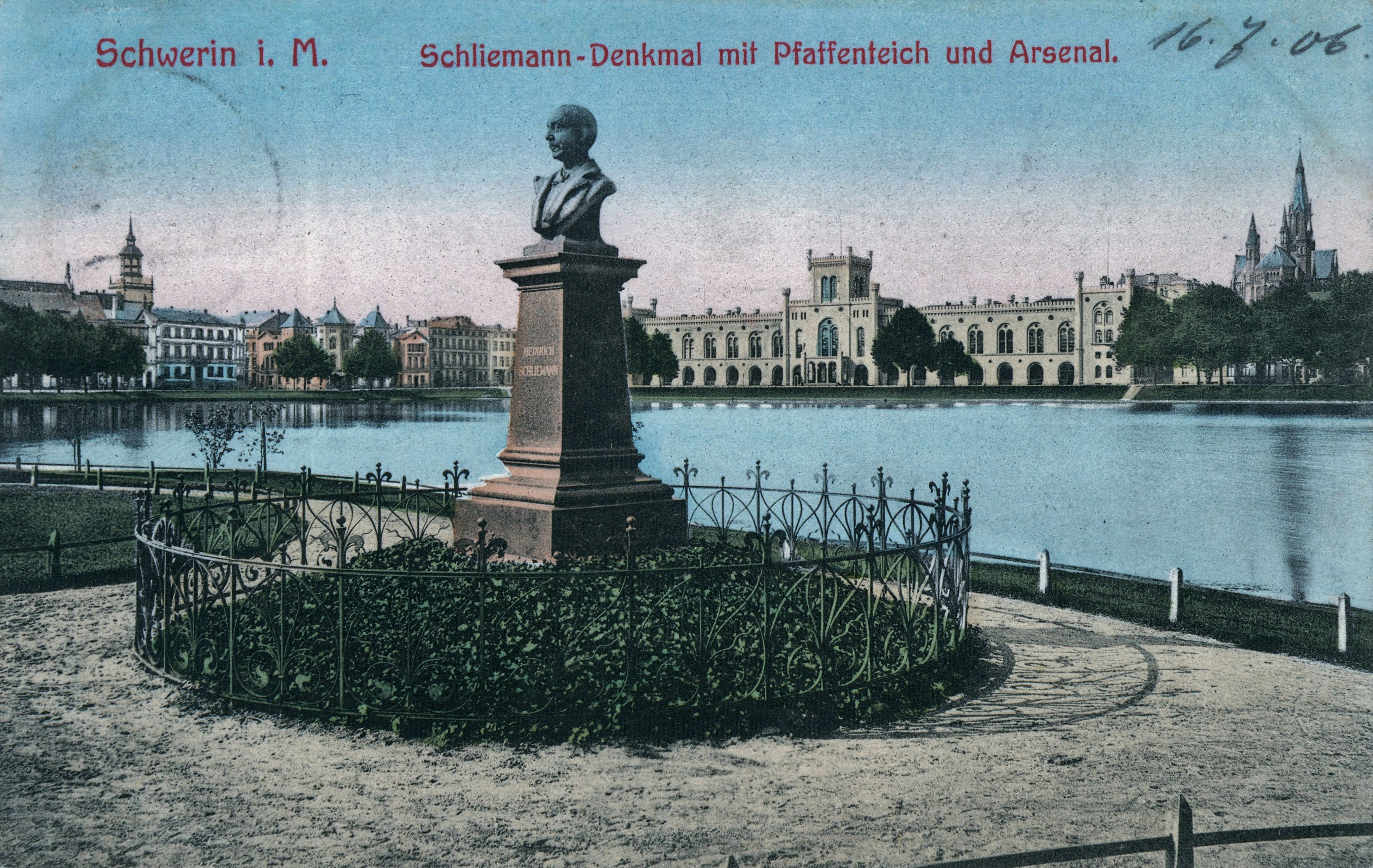 Memorial to Heinrich Schliemann in Schwerin by sculptor Hugo Berwald, unveiled in 1895